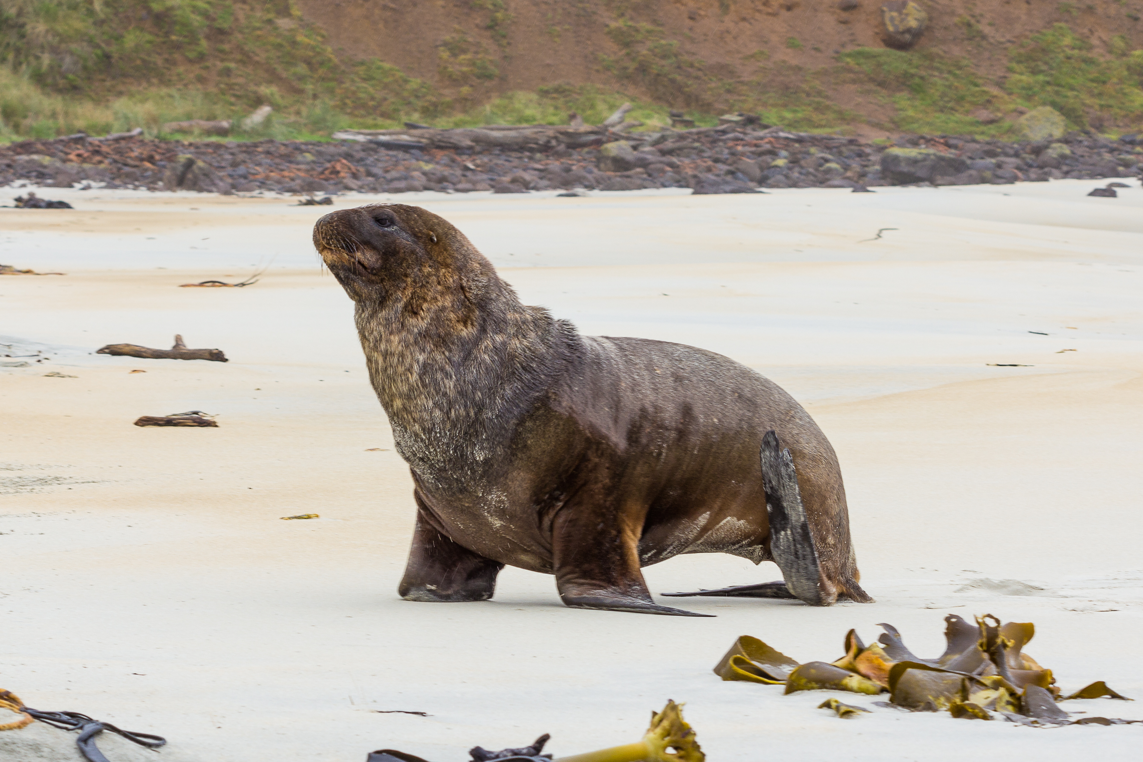 New Zealand Sea Lion